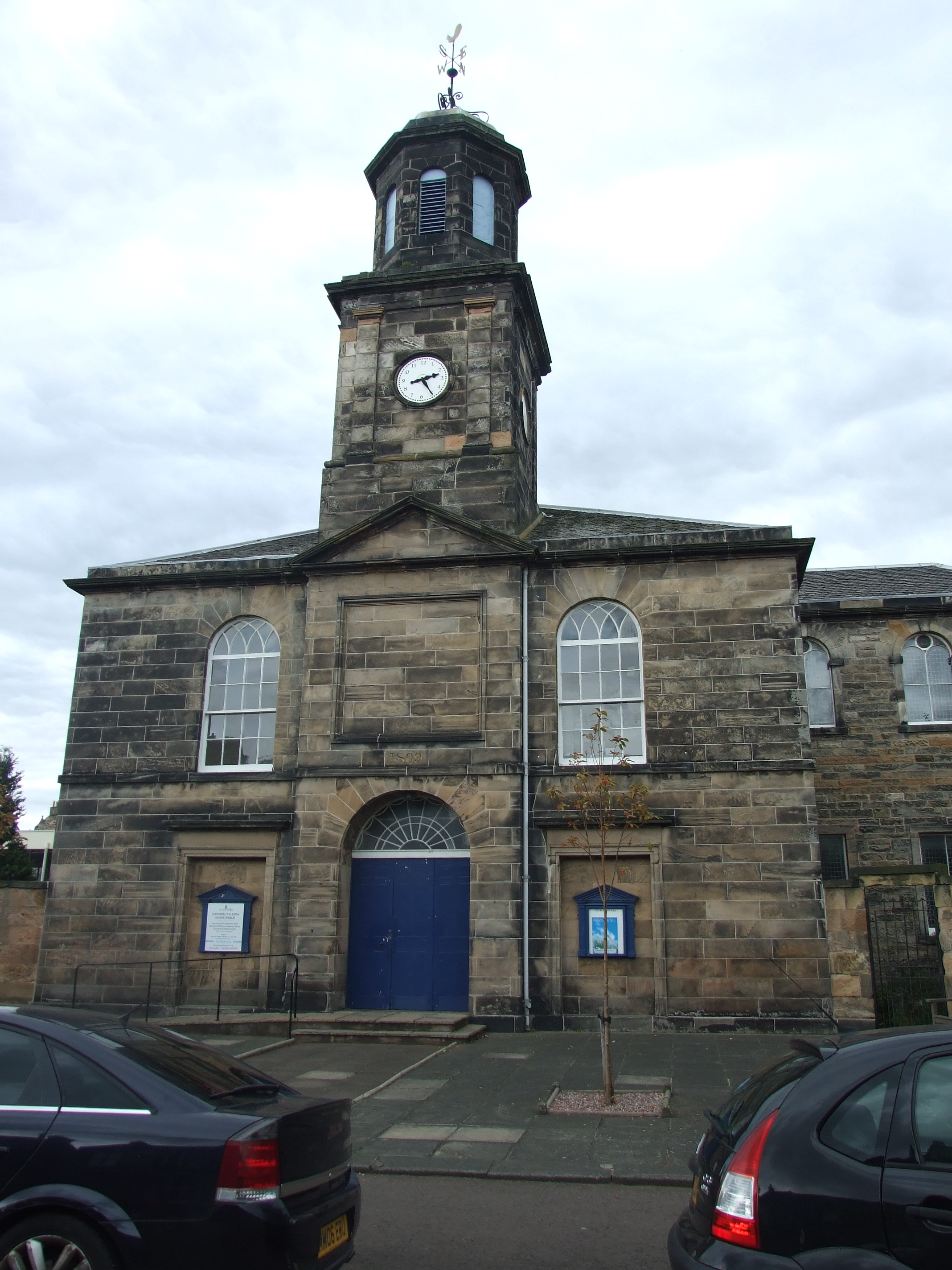 EDINBURGH, PORTOBELLO, 16A BELLFIELD STREET, PORTOBELLO OLD AND WINDSOR PLACE PARISH CHURCH Wikidata has entry Q17807329 with data related to this building.